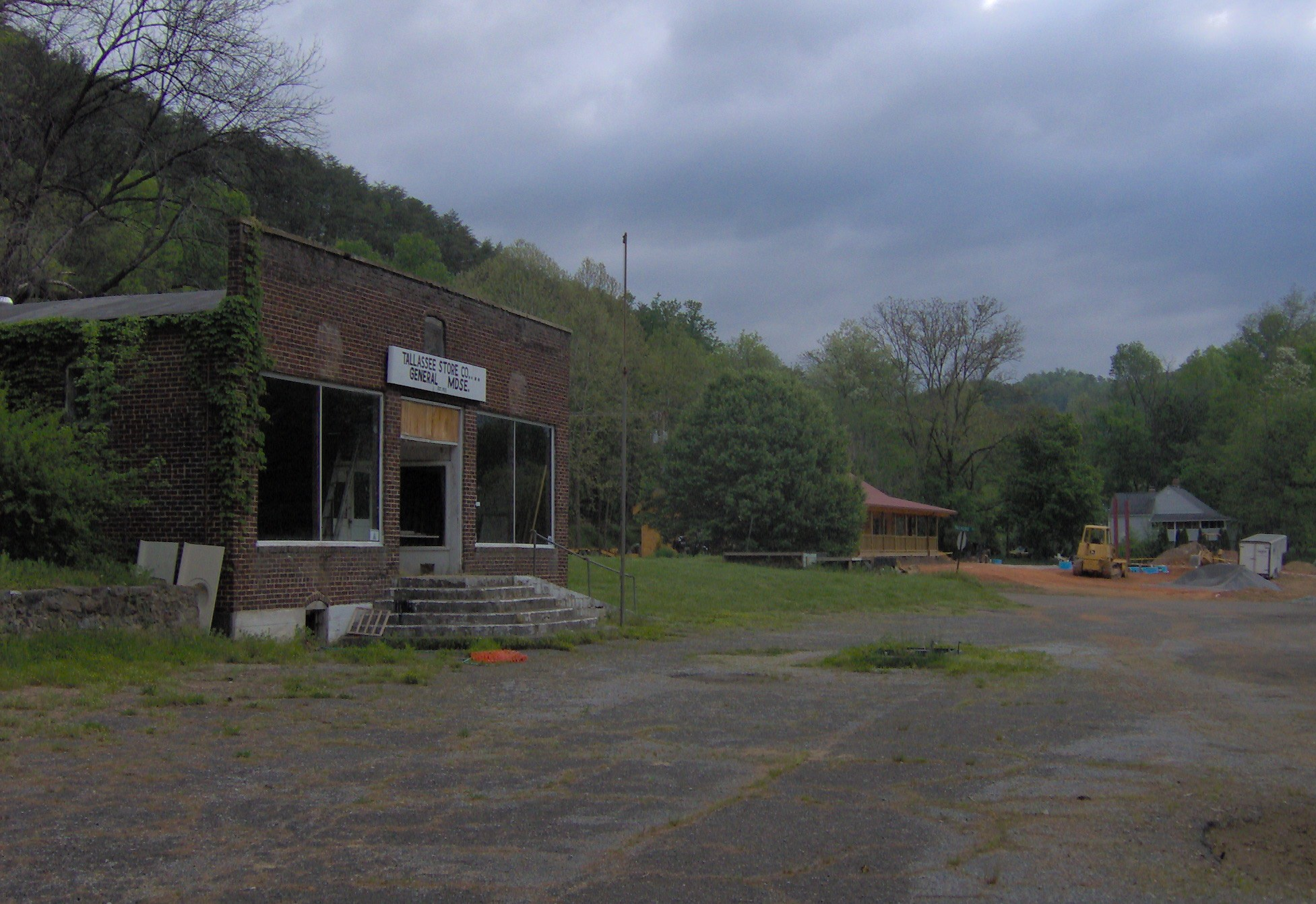 The modern hamlet of Tallassee, Tennessee, in the southeastern United States. This town, established as a railroad station in 1907, is located along US-129 near Chilhowee Dam (7 miles north of its ancient namesake).